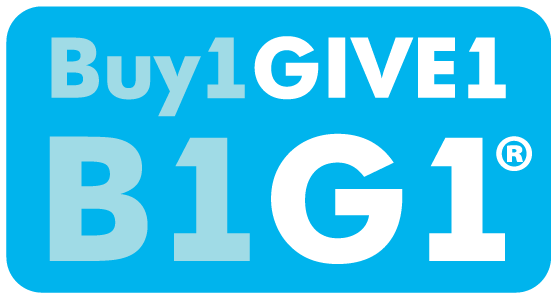 B1G1 logo, operated by BUY1GIVE1 PTE LTD